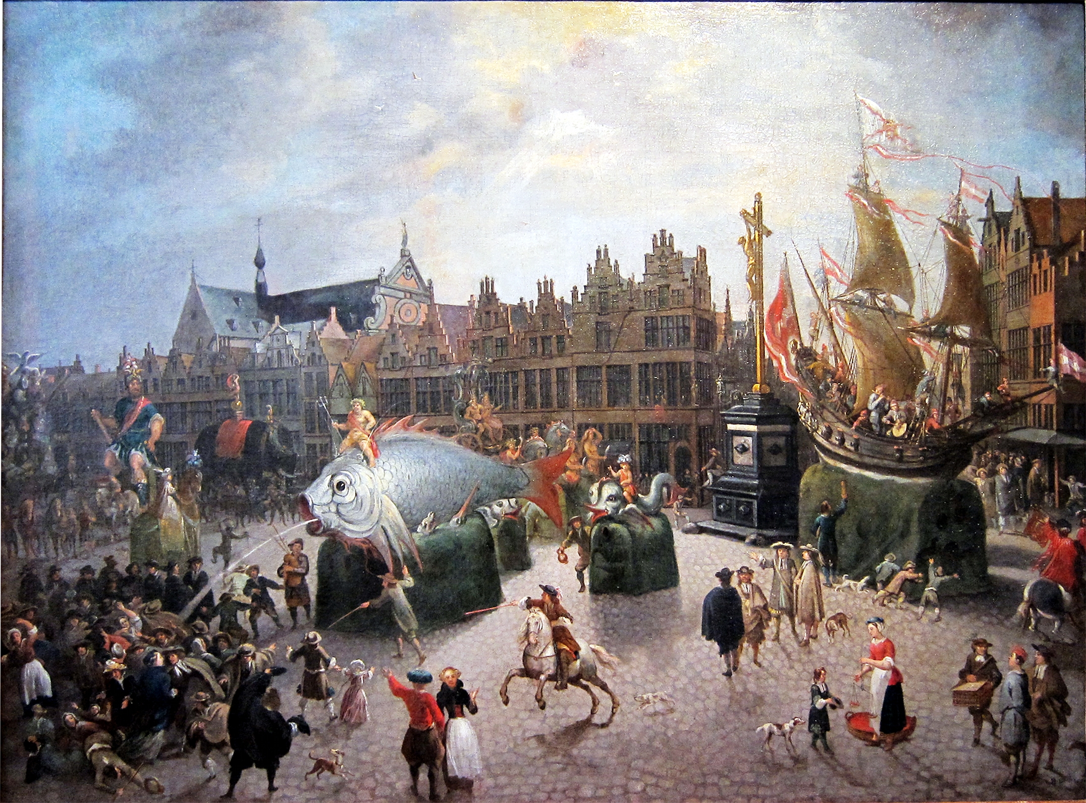 Carnival Floats on the Meir Square in Antwerptitle QS:P1476,en:"Carnival Floats on the Meir Square in Antwerp" label QS:Len,"Carnival Floats on the Meir Square in Antwerp"